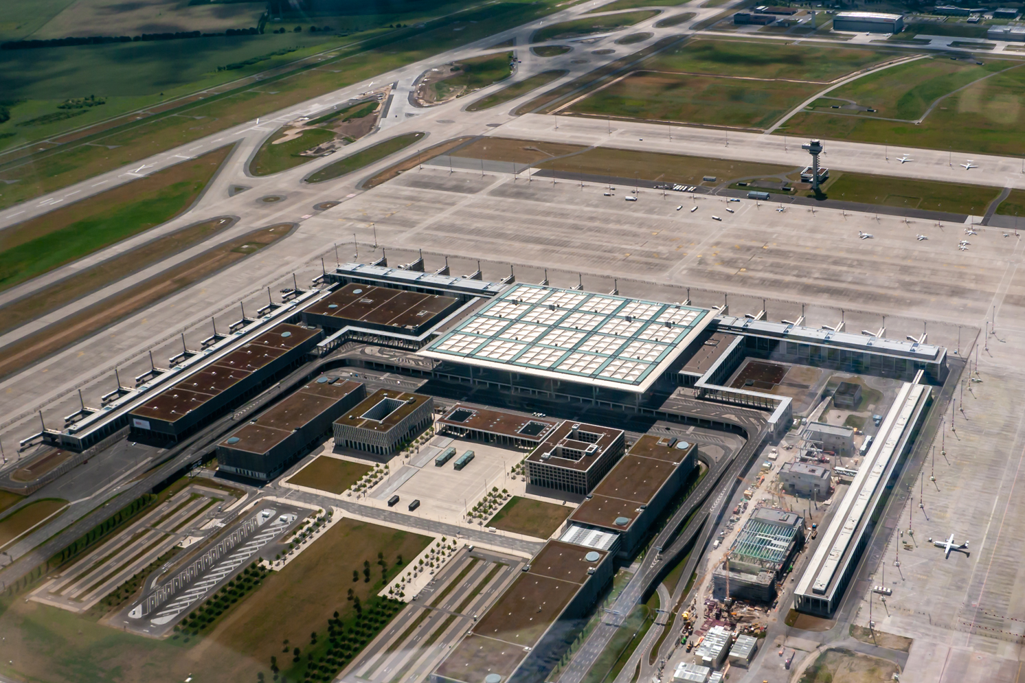 Berlin Brandburg Airport in 2019